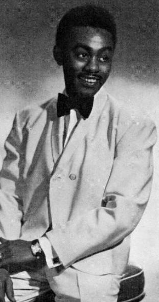 Trade ad for Johnnie Taylor's single "Somebody's Sleeping In My Bed". To better adapt it to his respective Wikipedia article, the ad was cropped and cleaned in a graphics editing program. The original can be viewed at the source below.